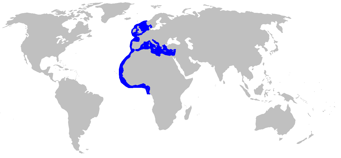 Distribution map for Scyliorhinus stellaris